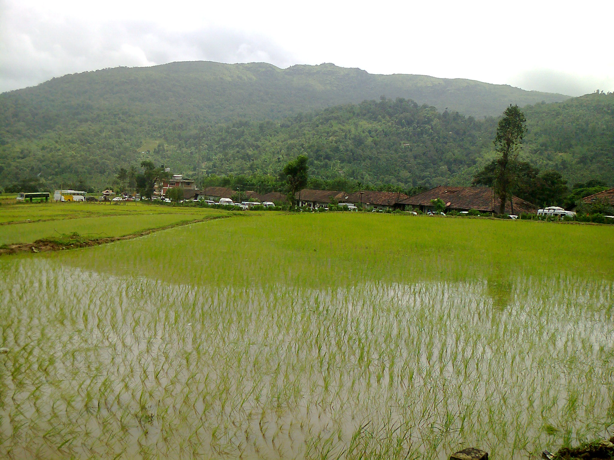 You can see a big flow of traffic for the big view. All visitors are given free three-course lunch. This village is surrounded by mountains on all four sides